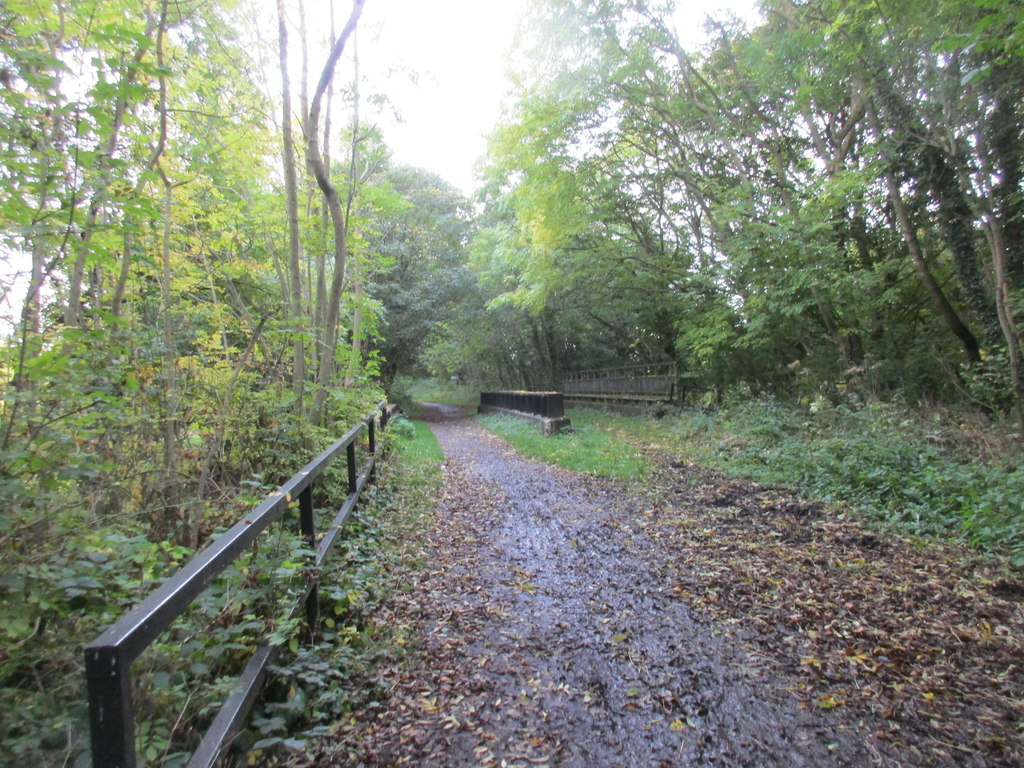 Bridge over Moorend Lane